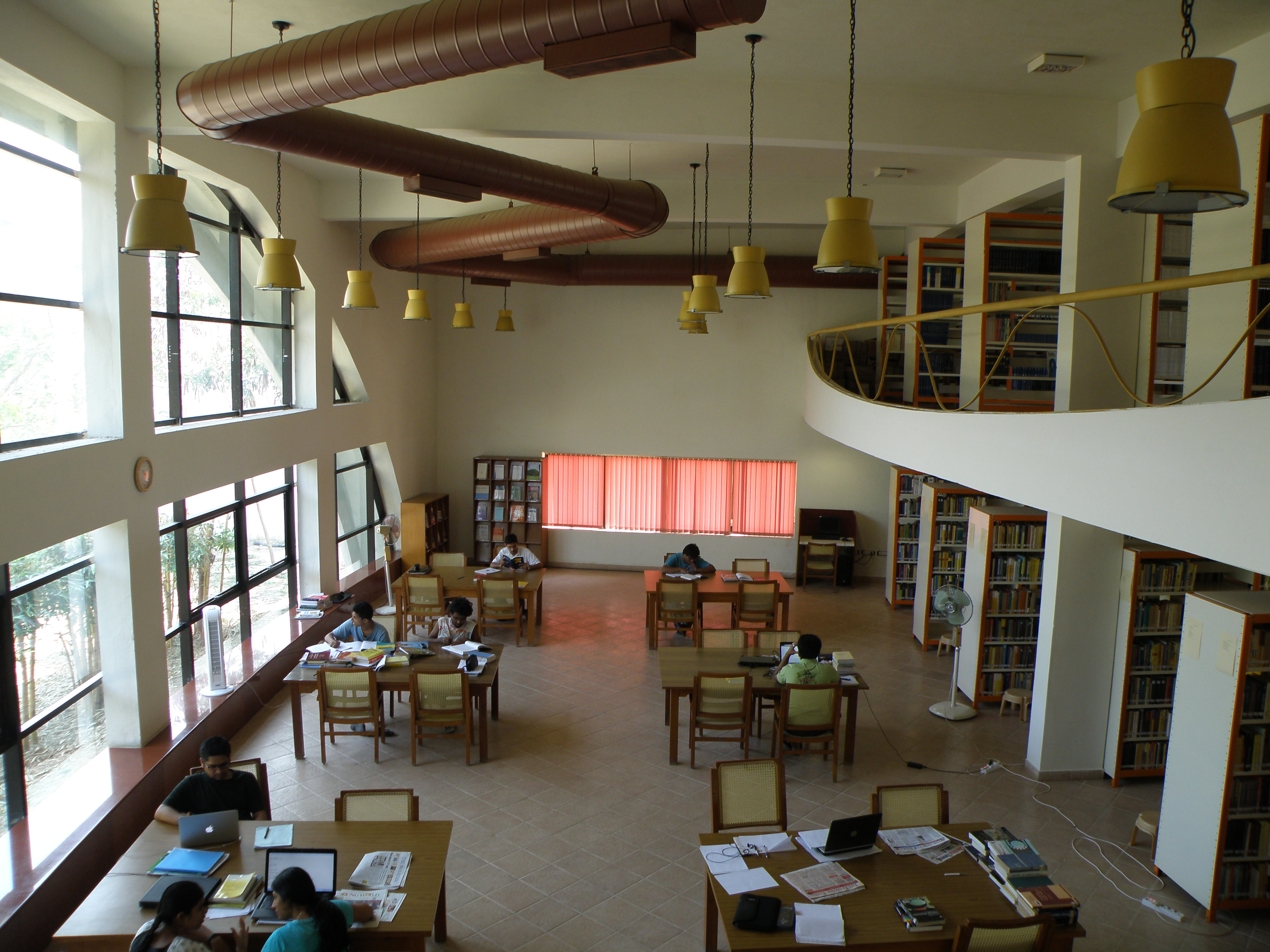 Chennai Mathematical Institute library.